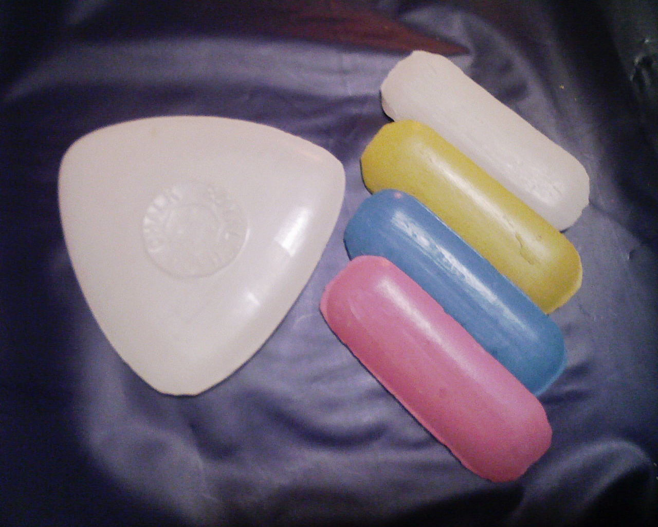 tailor's chalk